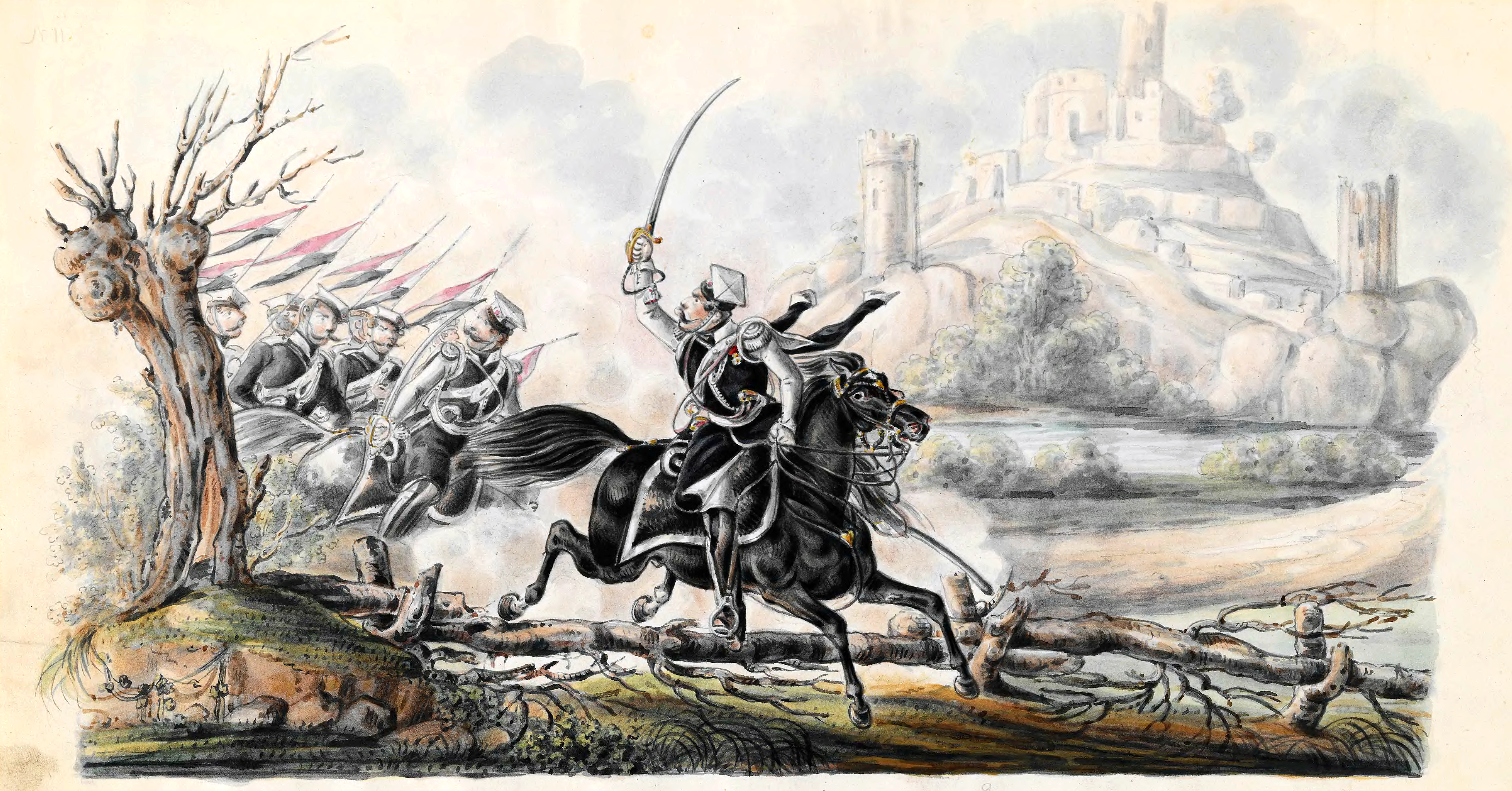 Regiment of Wolhynia Cavalry of November Uprising